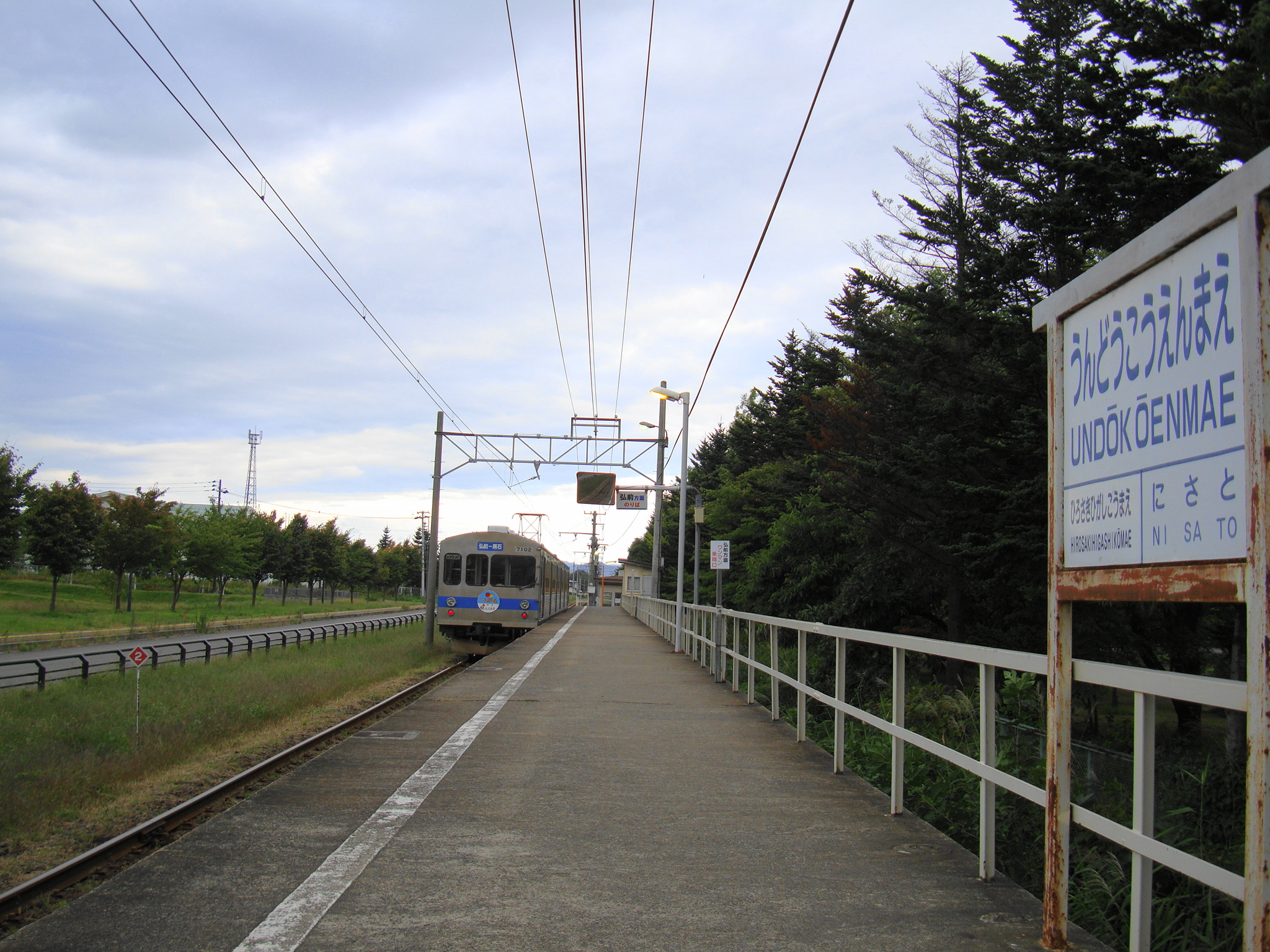 Undō Kōen-mae Station